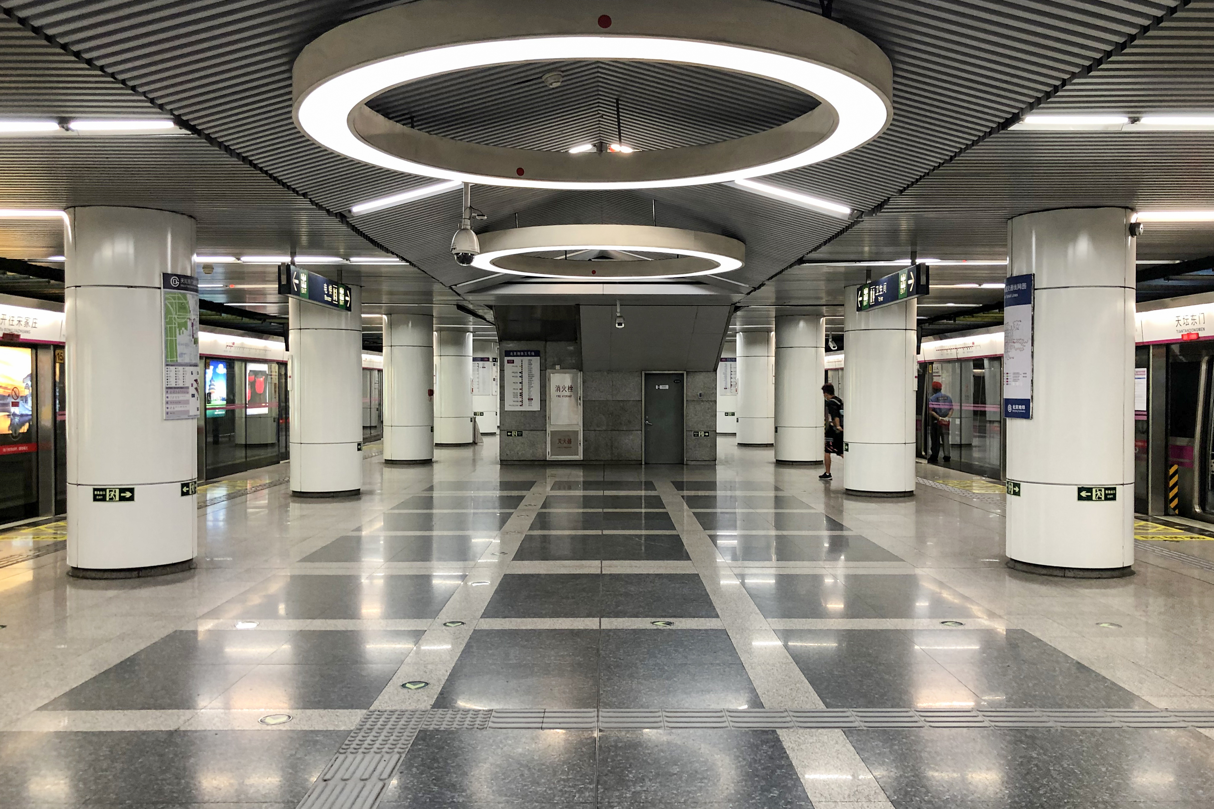 Designed after "round sky and square earth" concept.